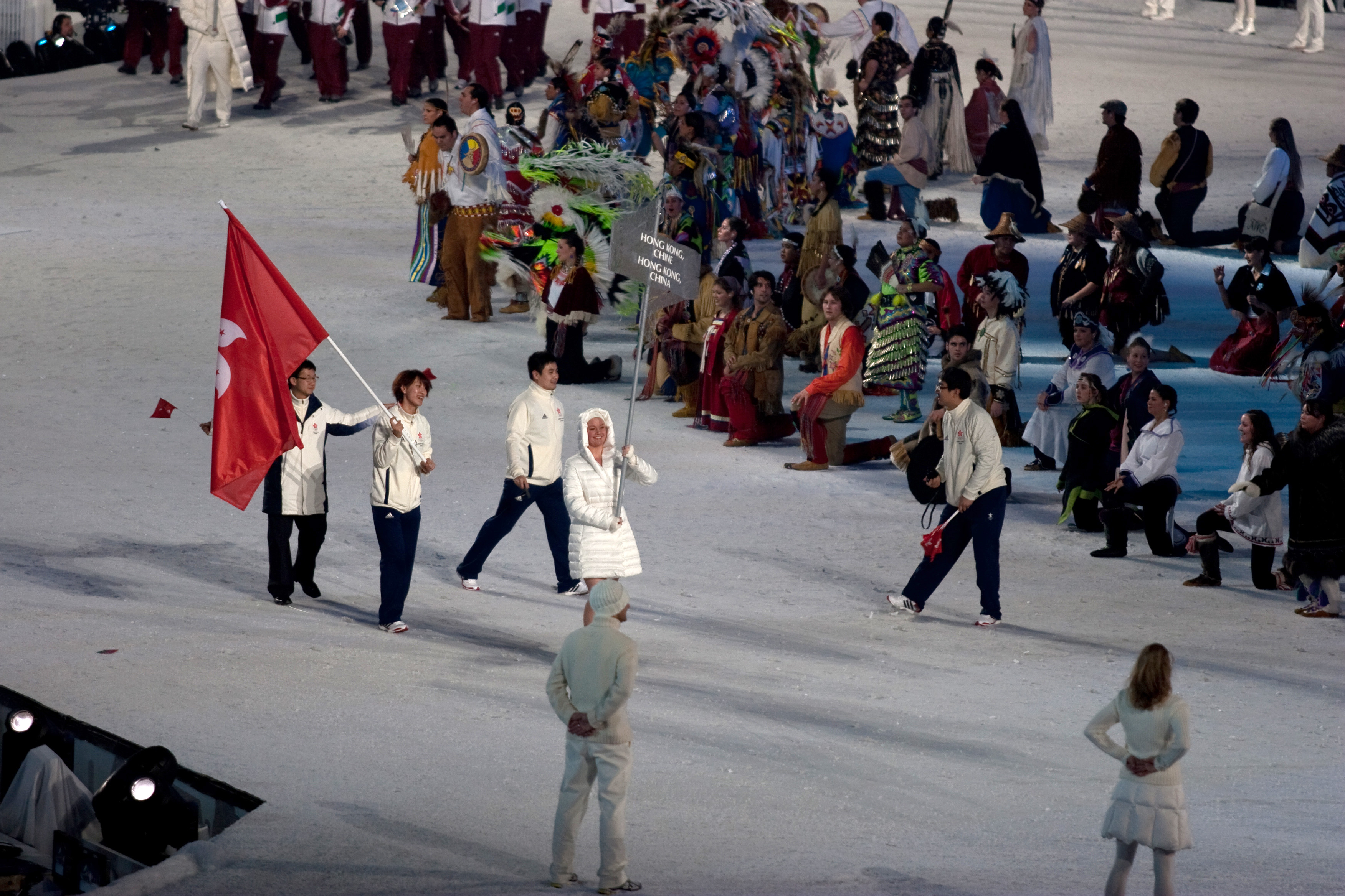 The athletes from Hong Kong entering the stadium at the opening ceremonies of the 2010 Winter Olympics